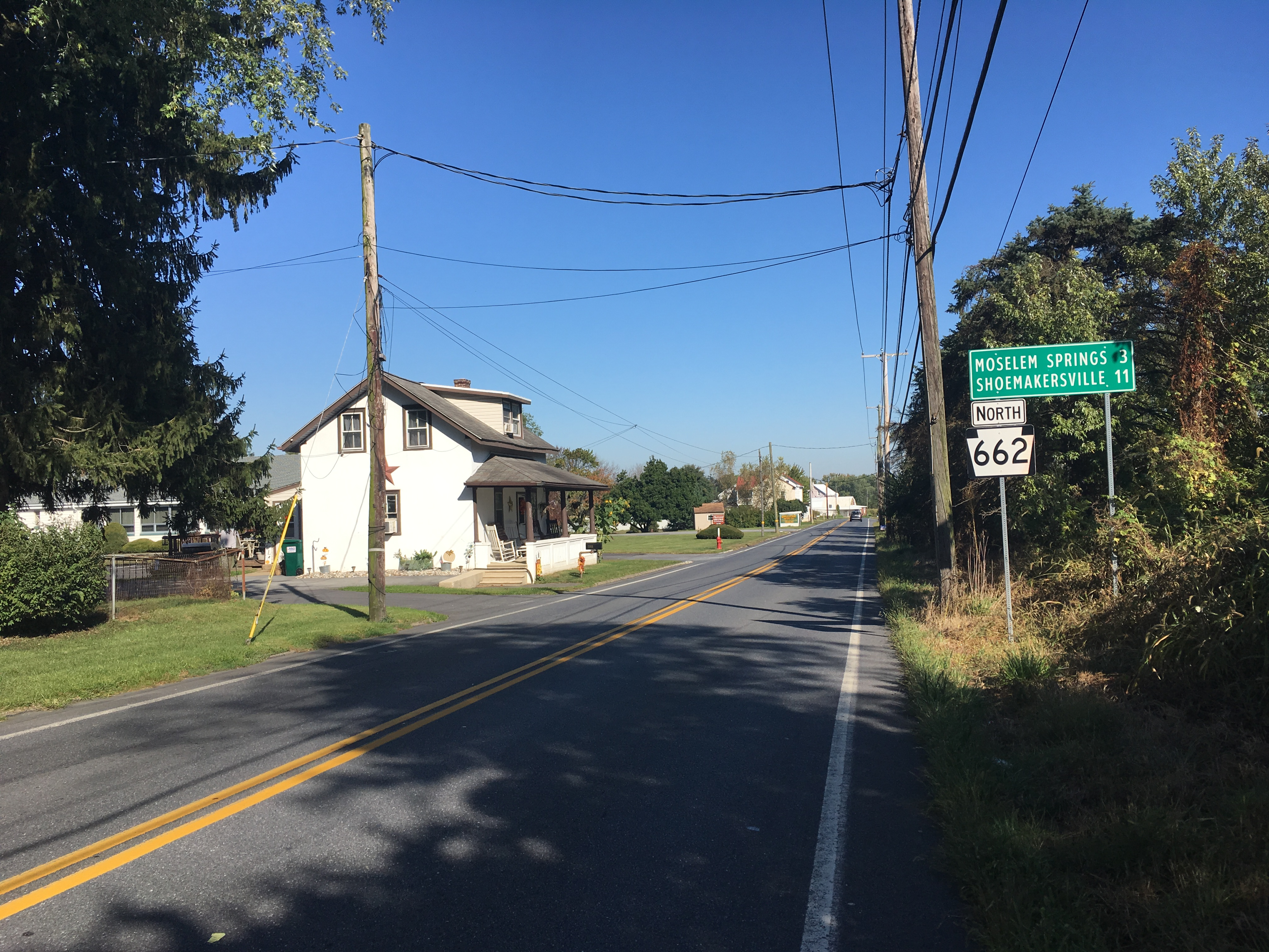 Northbound Pennsylvania Route 662 (Moselem Spring Road) leaving Fleetwood, Pennsylvania